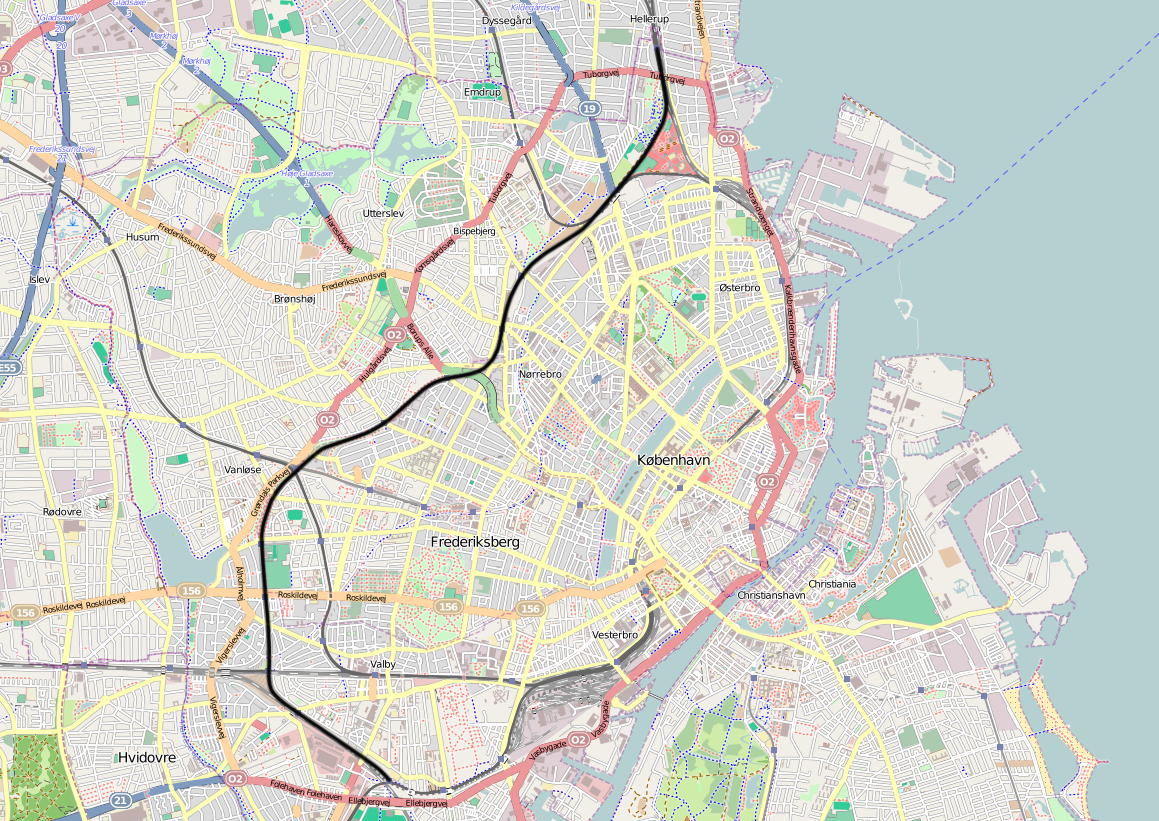 Railway line Hellerup - Vigerslev